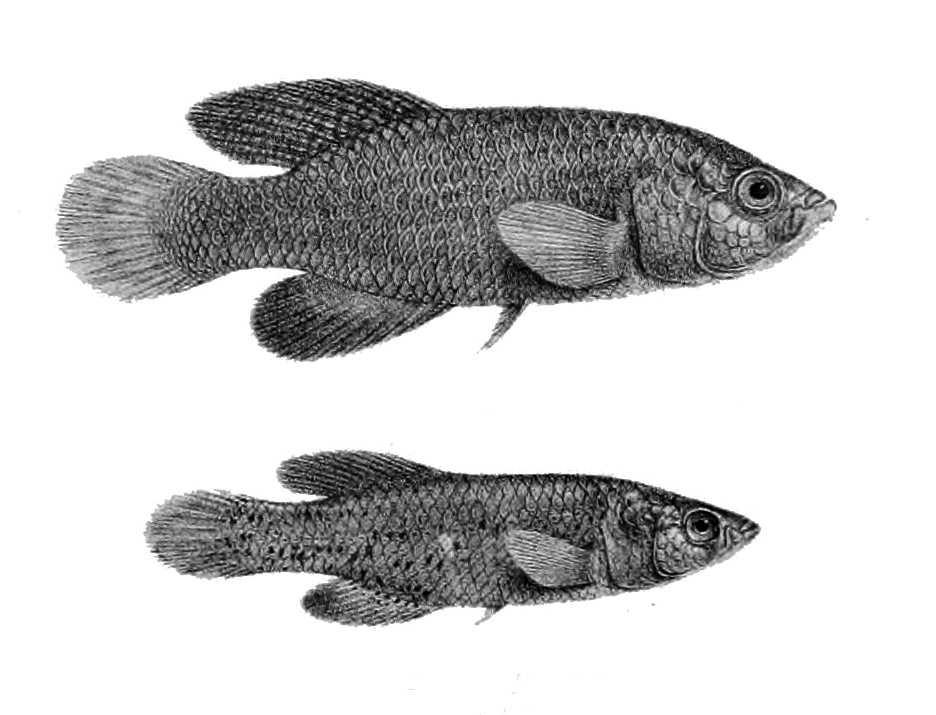 Nothobranchius orthonotus (male (up) female (down))